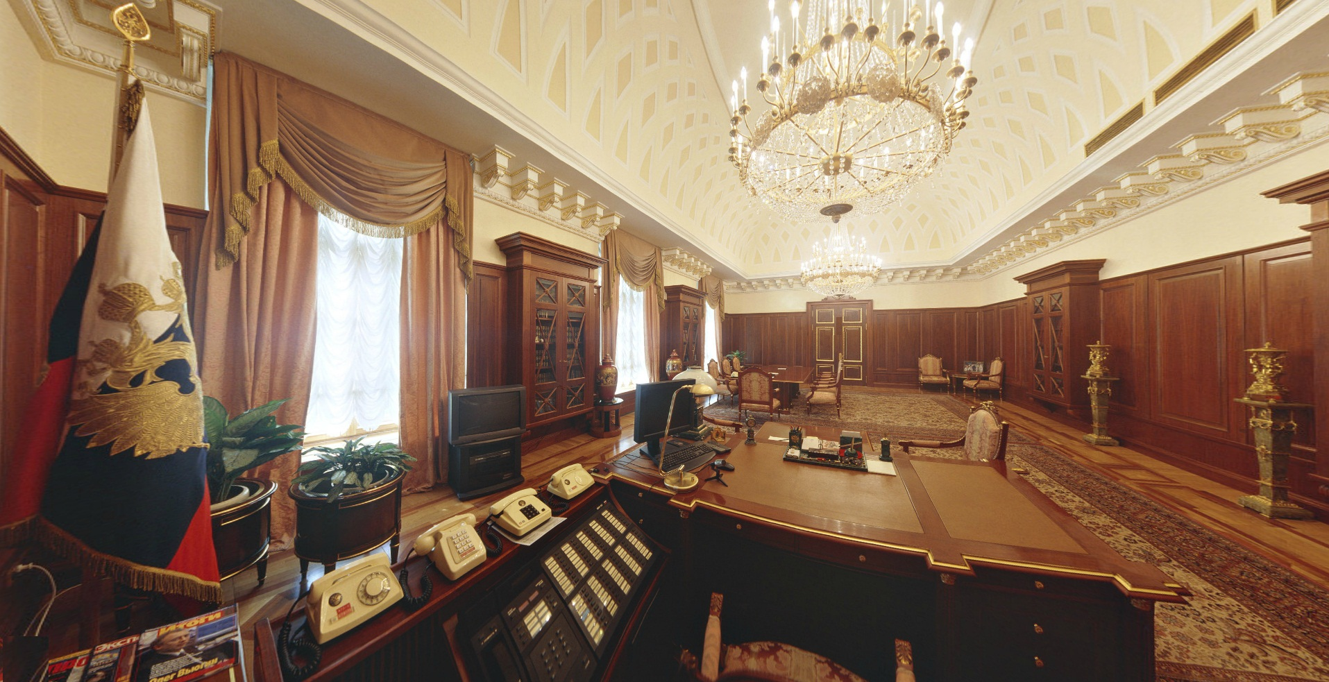 President work area. Senate Palace. Moscow Kremlin